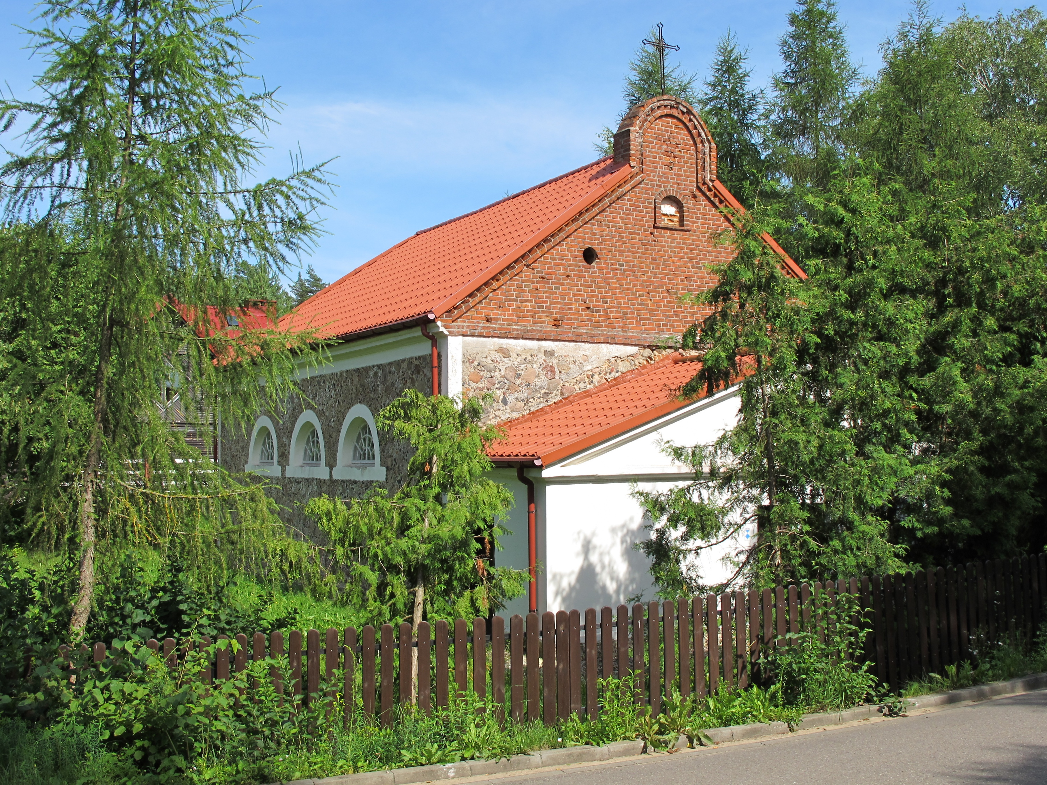 Saint Anne roman-catholic chapel (1840) in Królowy Most village, gmina Gródek, podlaskie, Poland